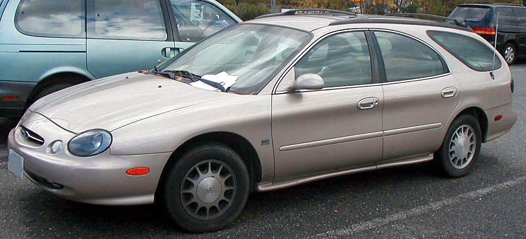 1998-1999 Ford Taurus wagon photographed in USA.